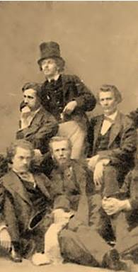 Artist Nikolai Petrov (in hat) and other members of the Artel of Artists, cropped from larger photo